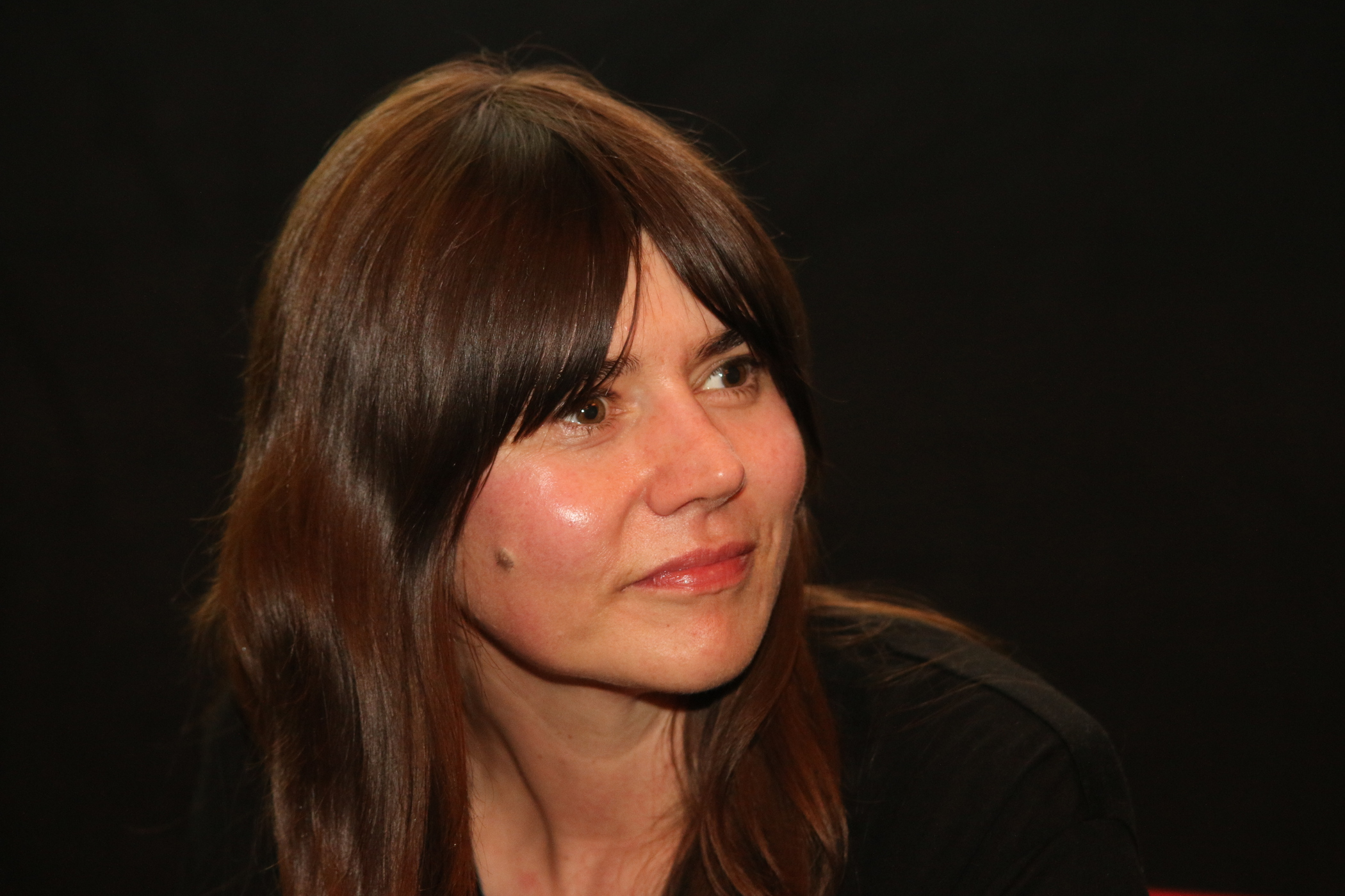 GoEast Film Festival 2014, Wiesbaden: Małgorzata Szumowska, Director from Poland